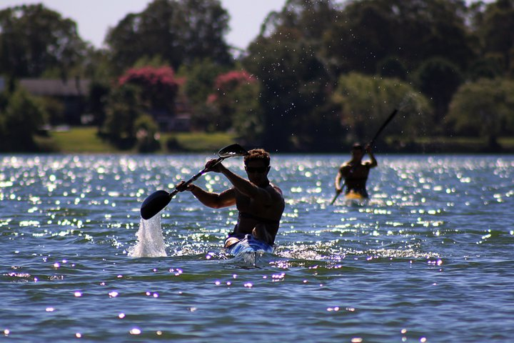 D´ambrosio training.